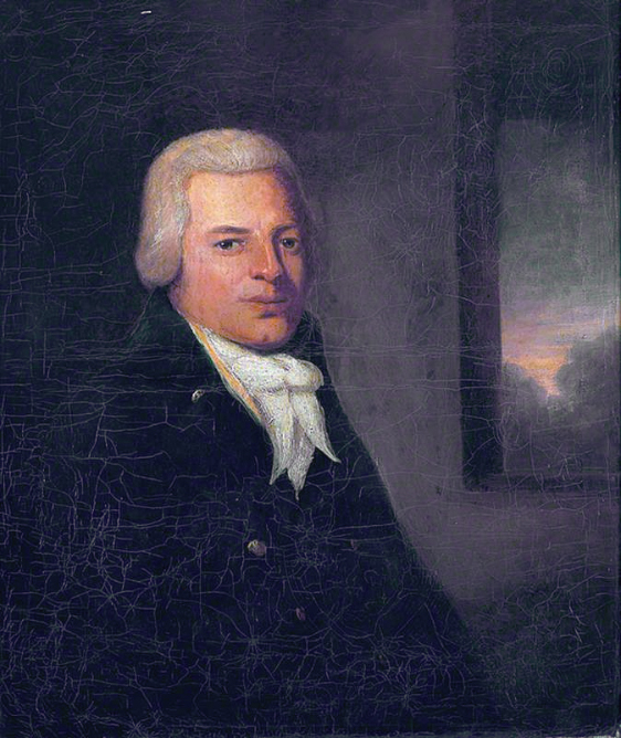 Self portrait oil on canvas 75 x 64 cm circa 1800